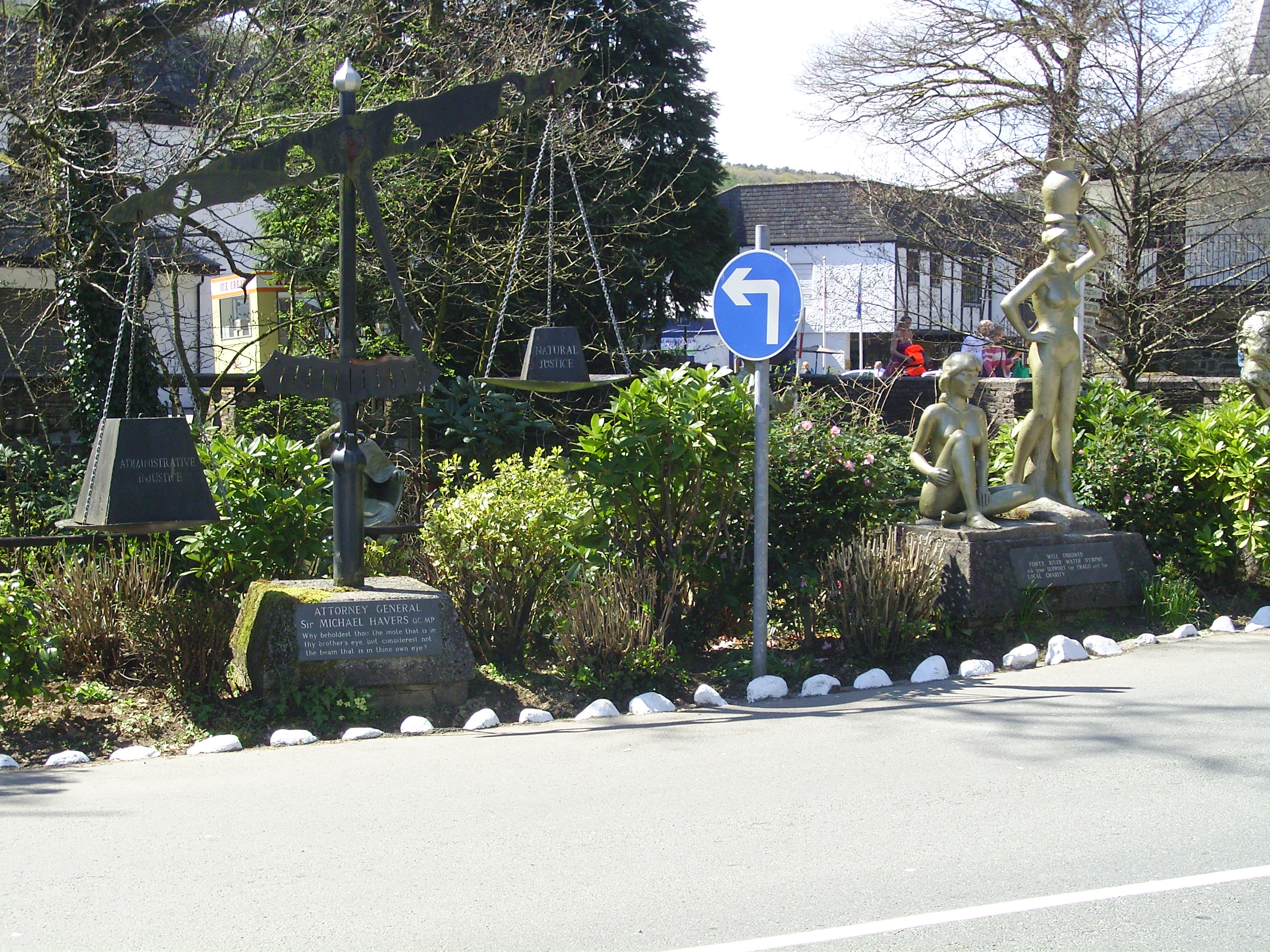 Photo of statues outside Trago Mills. Captions reads Attorney General Sir Michael Havers QC. MP. Why beholdest thou the mote that is in thy brother's eye, but considerest not the beam that is in thine own eye? and "Well endowed Fowey River water nymphs ask your support for Trago and for Local Charity"